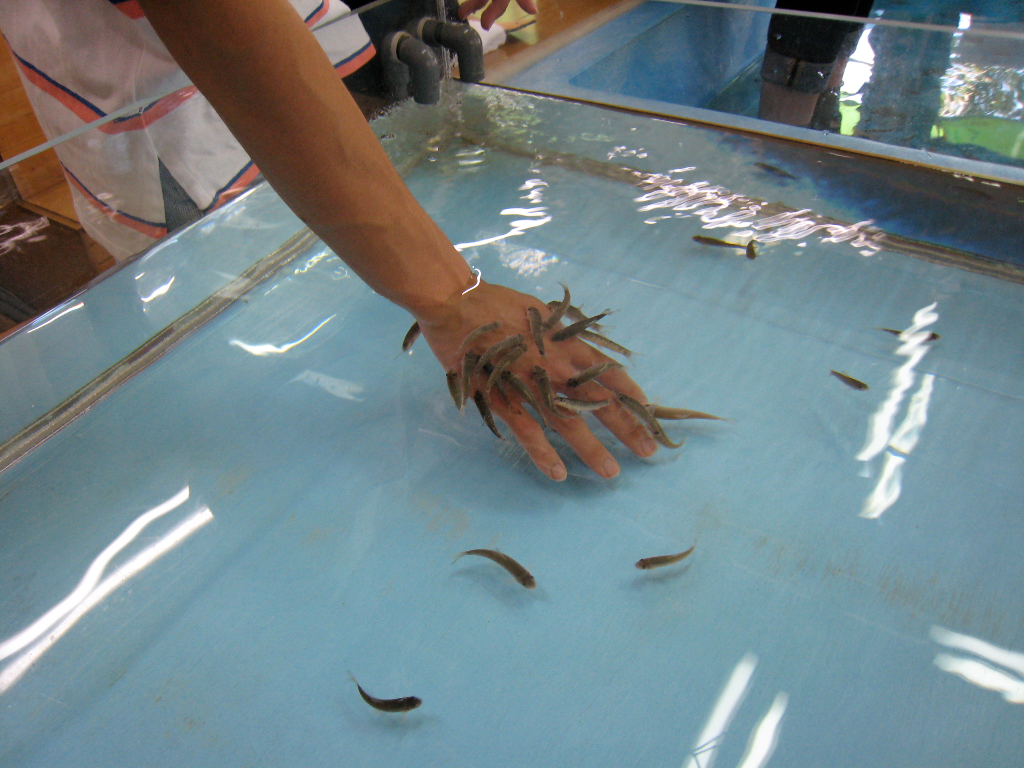 Doctor fish, Garra rufa. Kusatsu nettaiken. Kusatsu-town, Gunma-pref, Japan.